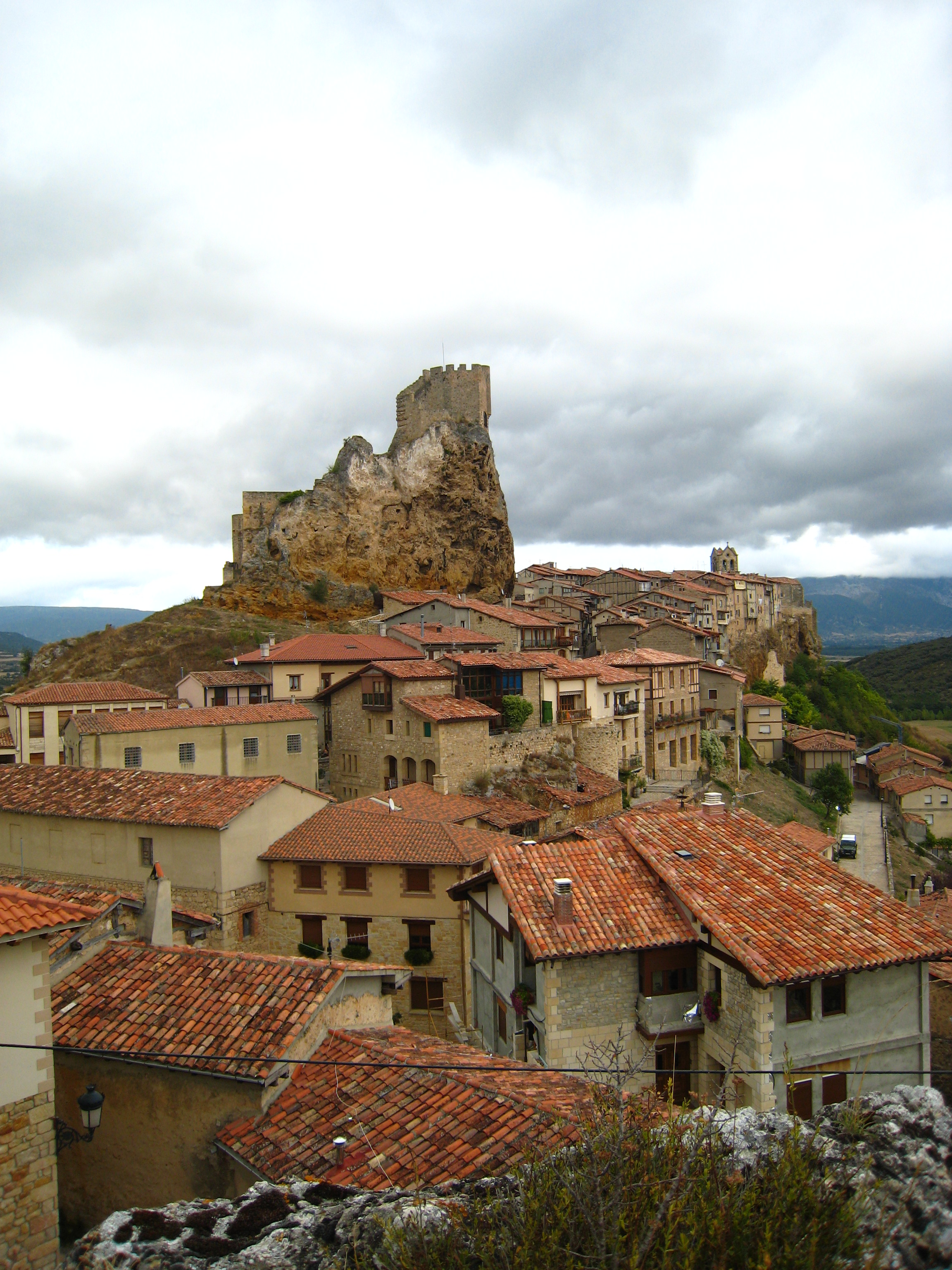 Google Maps - Google Earth